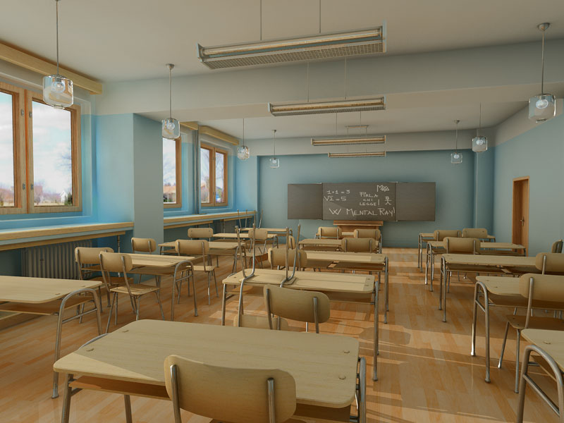 Maya Mental Ray test rendering with the famous classroom file downloaded from evermotion website! Modeling, texturing and rendering by Alex Sandri.